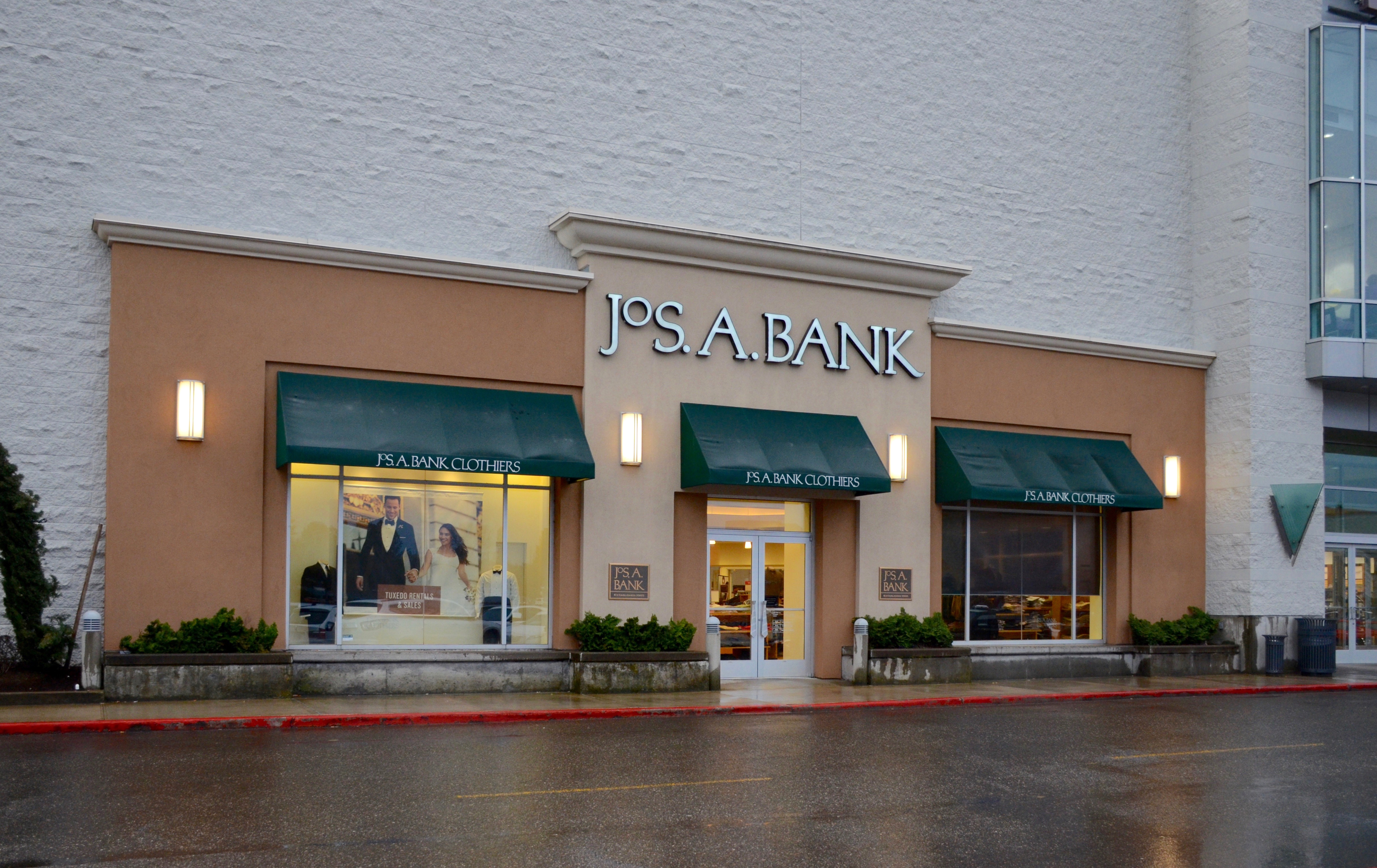 The Jos. A. Bank Clothiers store at the Washington Square mall, in the Portland suburb of Tigard, Oregon. This is the store's outside entrance, but it also has an entrance inside the mall, on the corridor that is accessed via the mall entrance that is just visible on the far right in this photo.